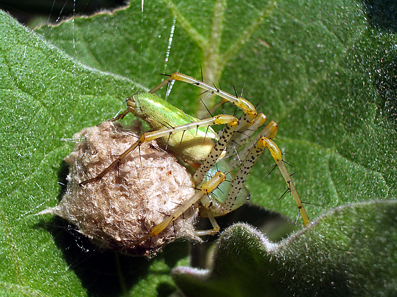 Green Lynx Spider (Peucetia viridans) with egg sac.